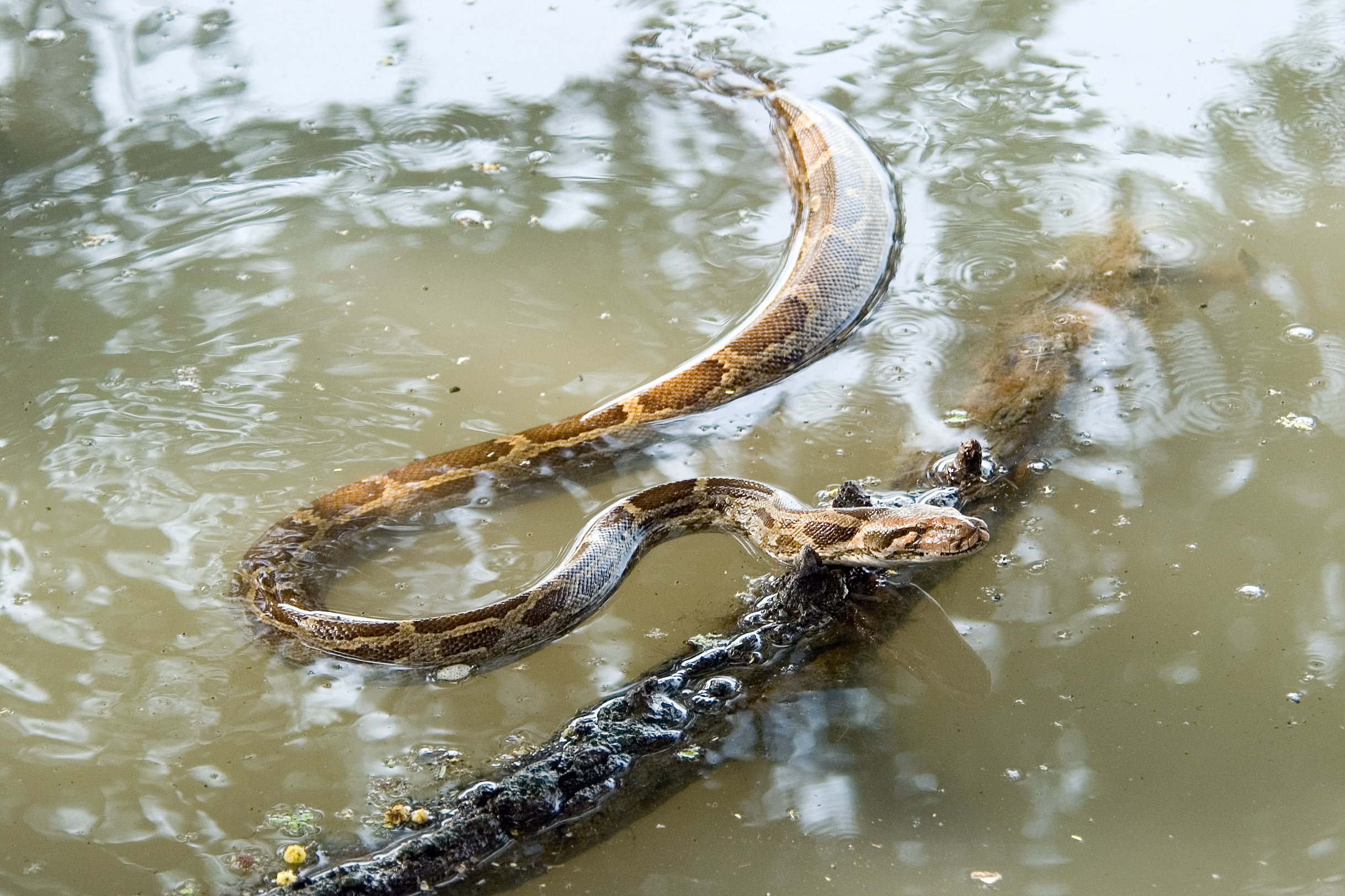 Indian python, Python molurus, taken in Keoladeo Ghana National Park, Bharatpur, Rajasthan, India